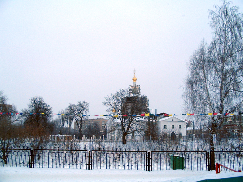 Bogoyavlenskaya (God-appearance) church in Oryol